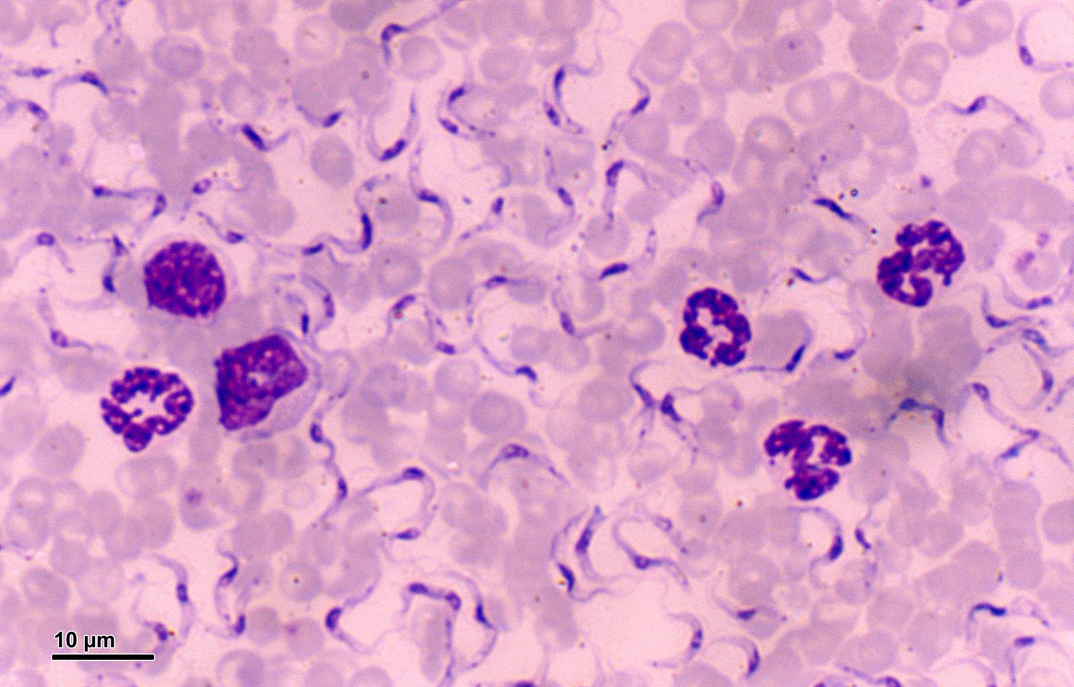 Trypanosoma (Trypanosoma equiperdum): Trypanosoma equiperdum. Optical microscopy technique: Bright field. Magnification: 2400x (for picture width 26 cm ~ A4 format).